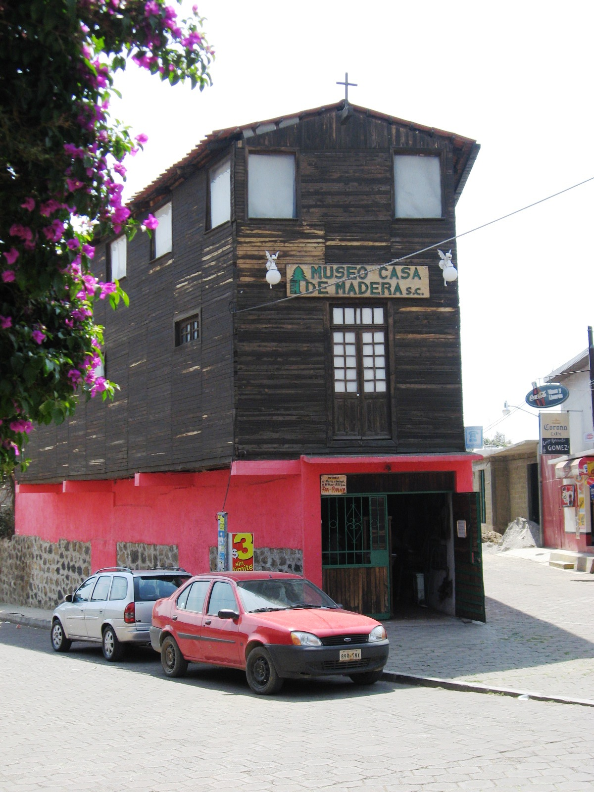 The Casa de Madera Museum in Tenango del Aire, Mexico State, Mexico